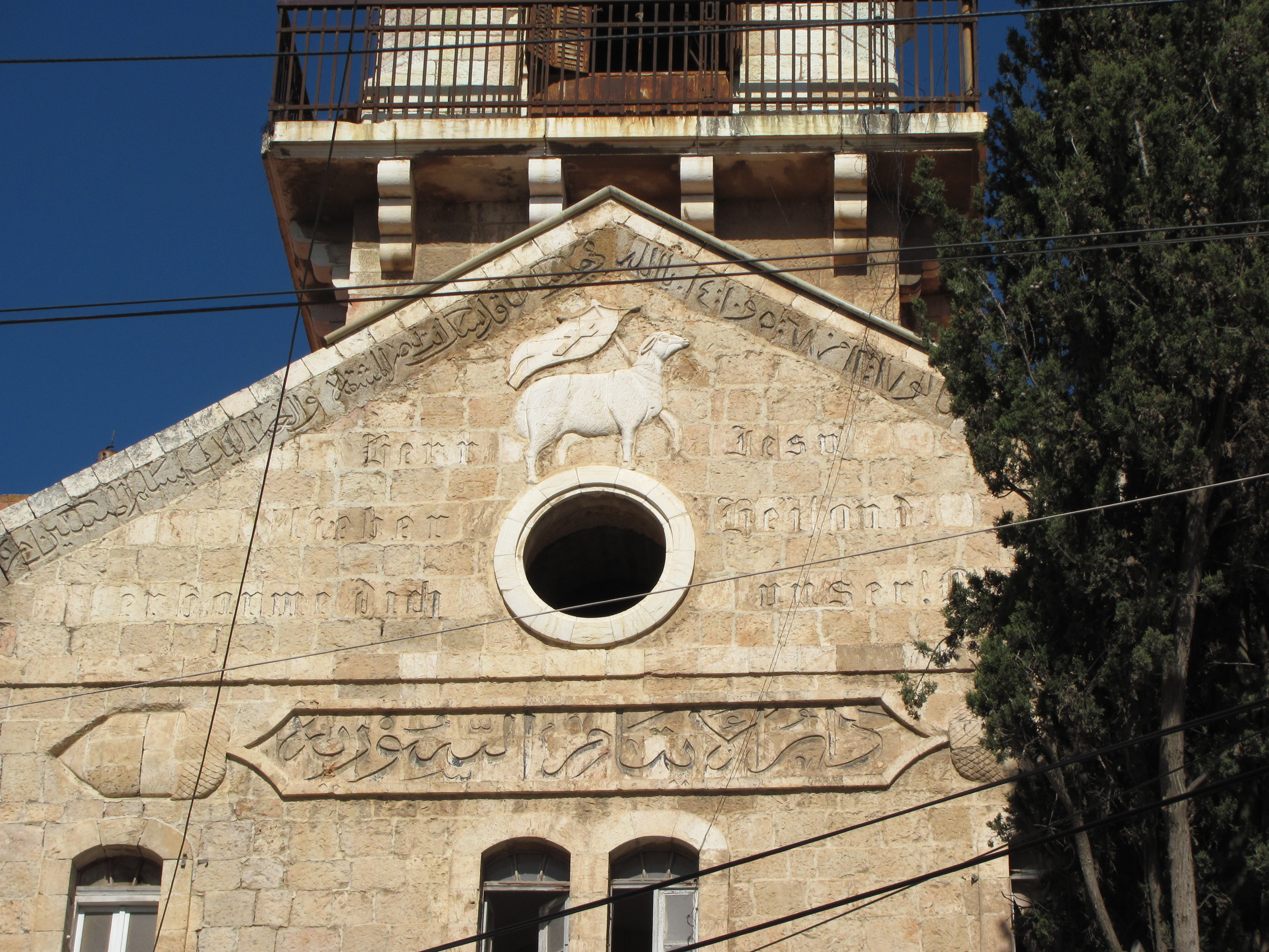 Closeup of stone relief and epigram engraved on the facade of the Schneller Orphanage main building. The epigram reads: "Jesus the Messiah has compassion upon us" in German and Arabic.